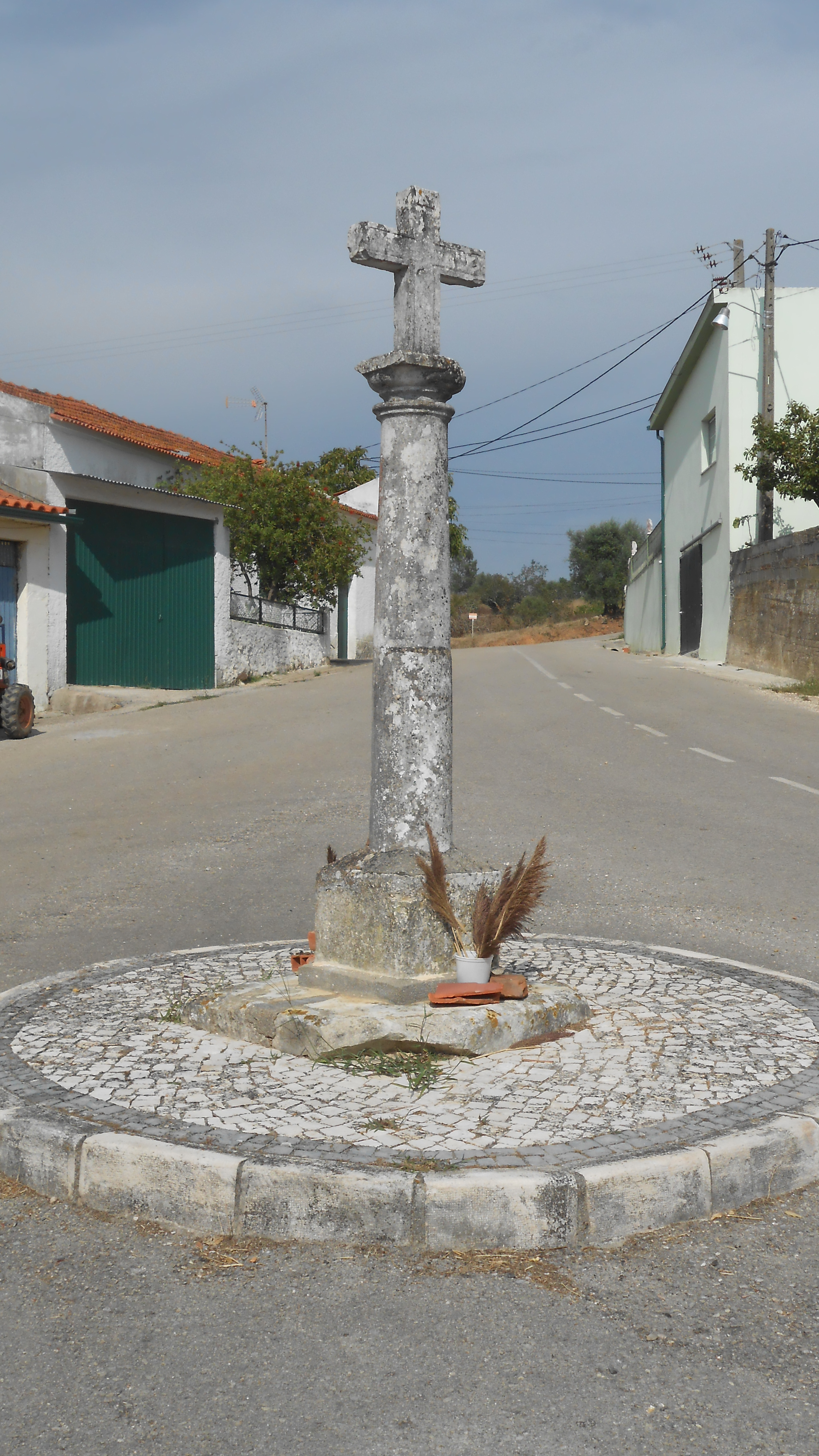 The wayside cross in the Urmar village, parish of Samuel, municipality of Soure, district of Coimbra, Portugal